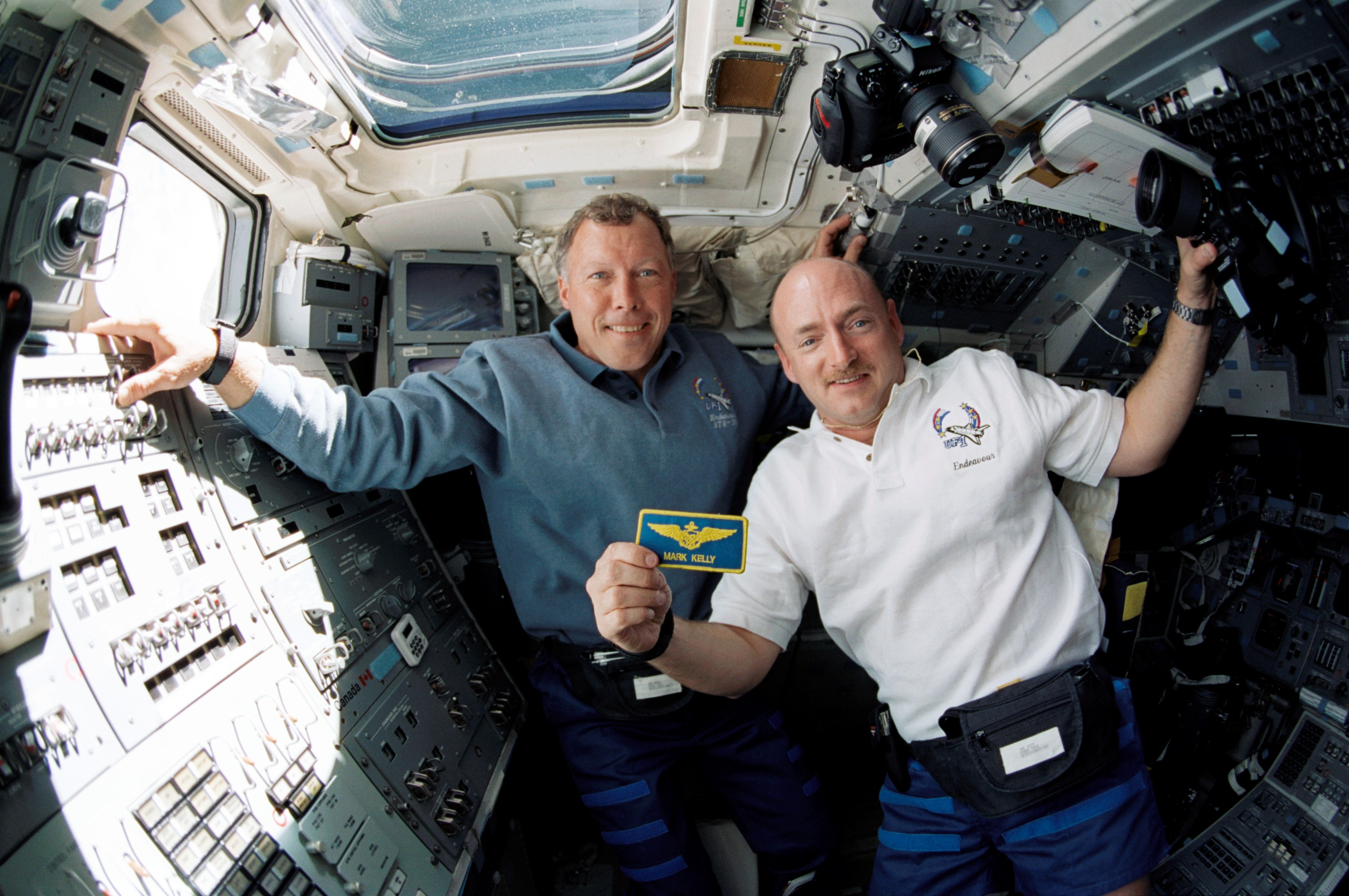 (5-17 December 2001) — Astronauts Dominic L. Gorie (left) and Mark E. Kelly, STS-108 mission commander and pilot, respectively, photographed with a Navy wings patch on the aft flight deck of the Space Shuttle Endeavour.